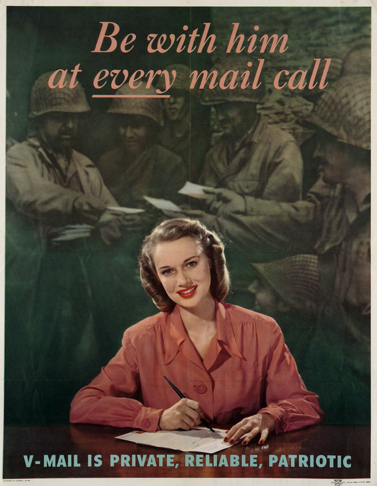 Poster from a series commissioned by the US Armed Services